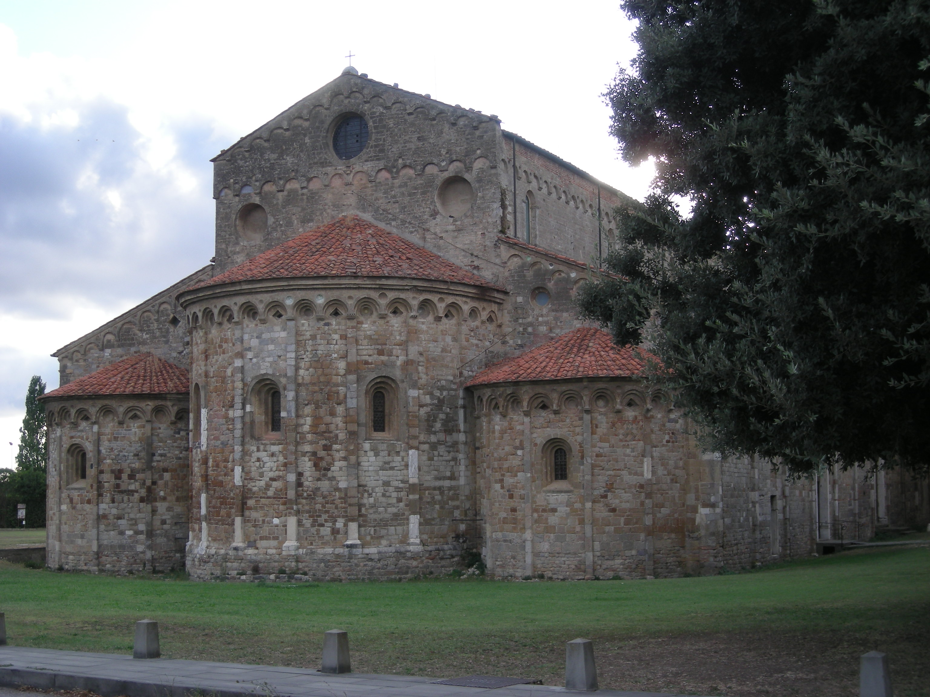 Basilica di San Pietro Apostolo (S. Piero a Grado)